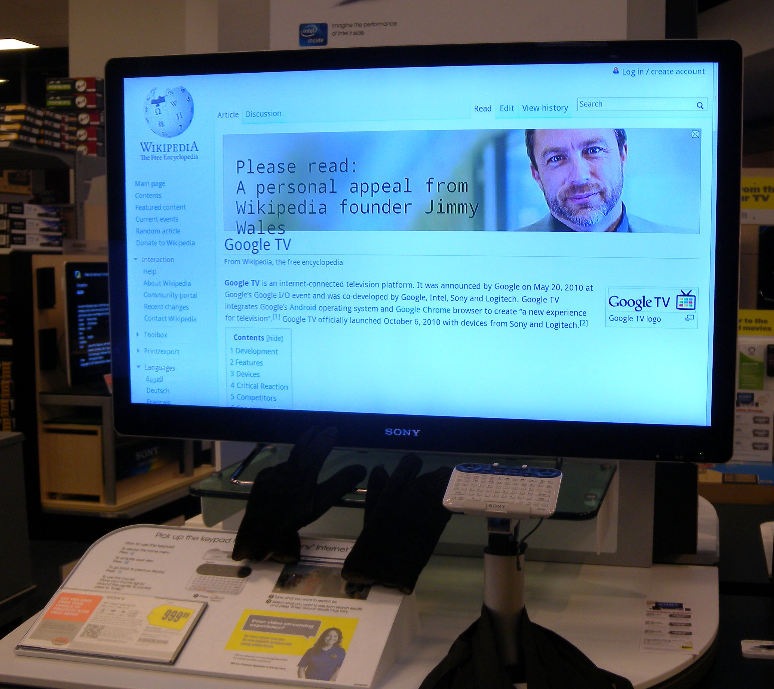 Sony Internet TV showing Wikiarticle about Google TV.